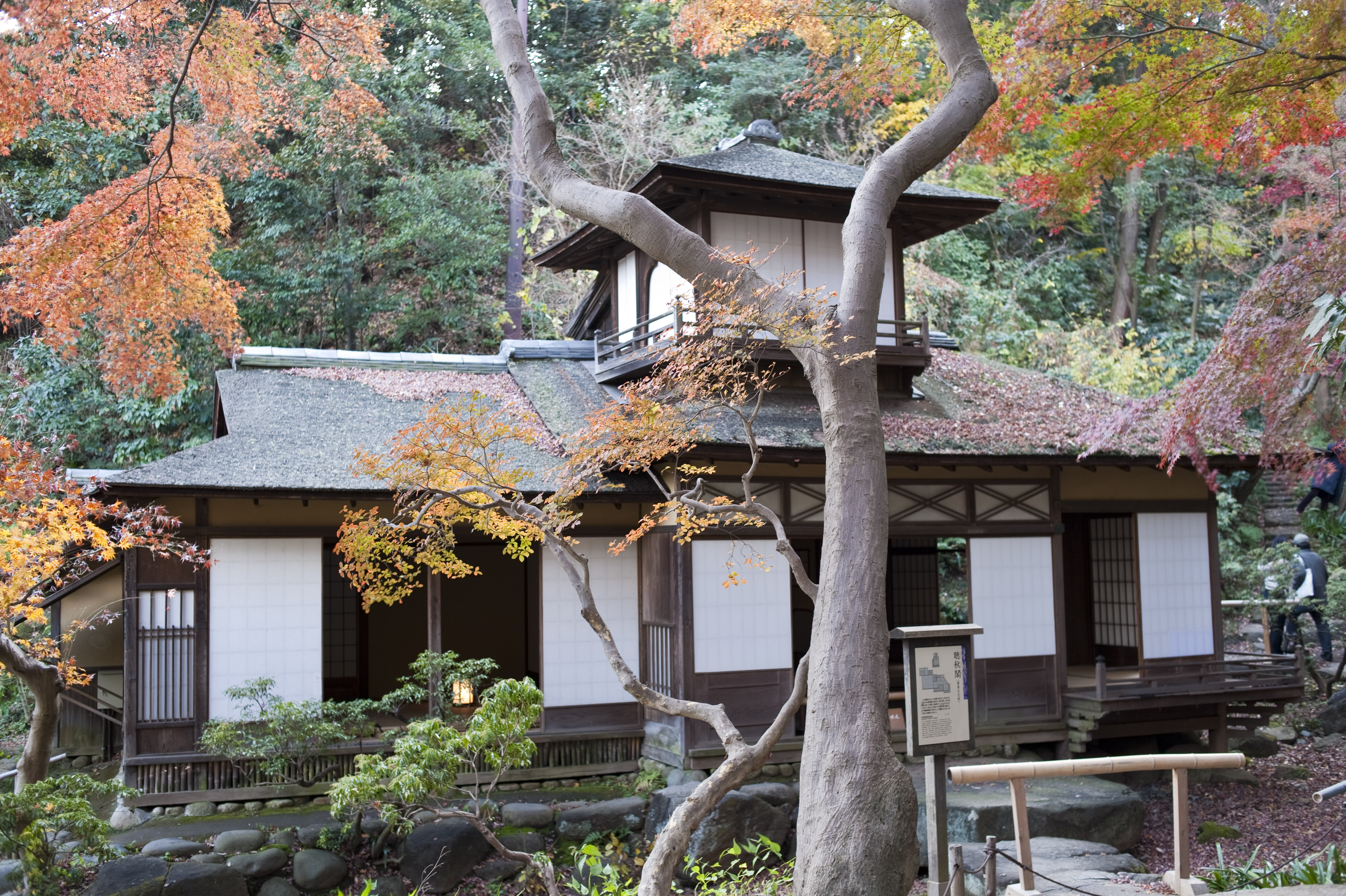 The Chōshūkaku at the Sankei-en garden in Yokohama